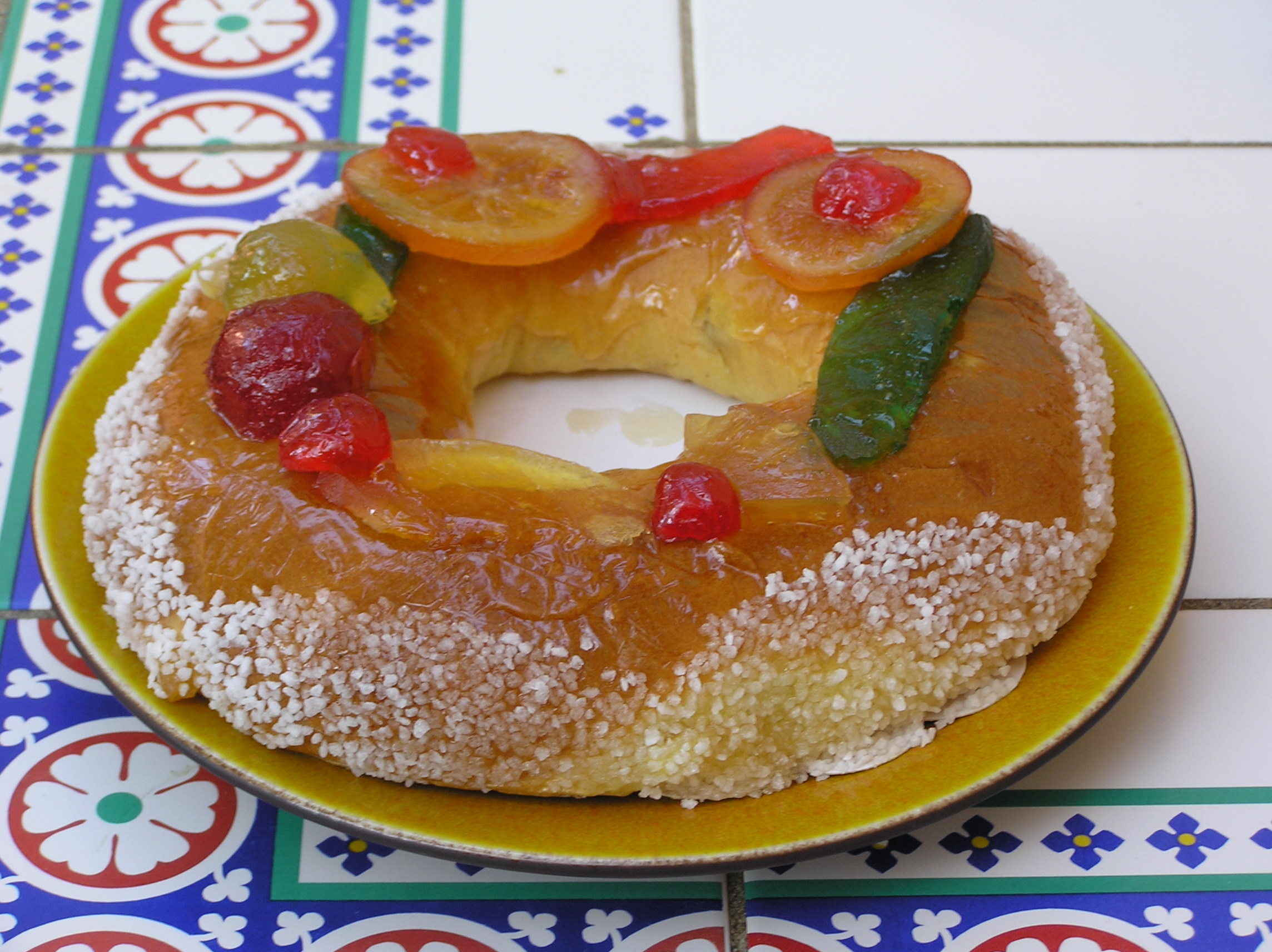 Gâteau des rois Uploaded on behalf of User:Moumousse13